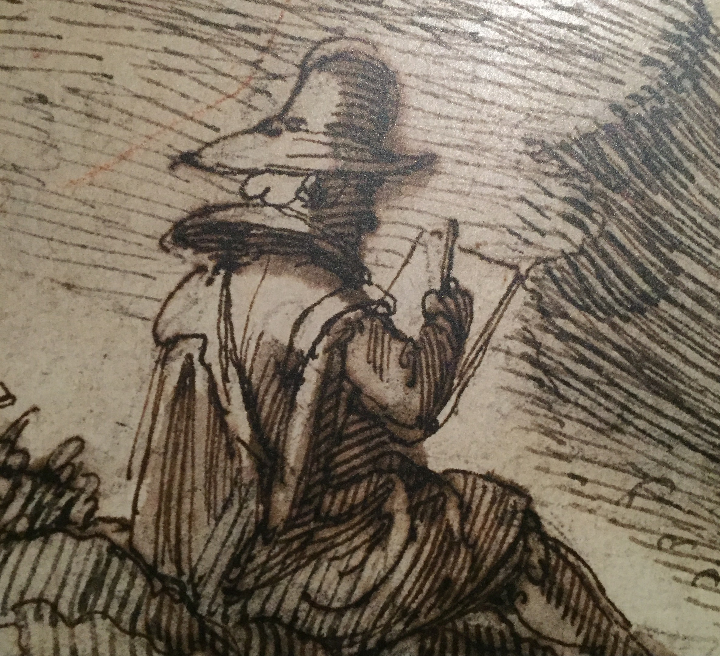 Self-portrait of Remigio Cantagallina (detail of one of his drawings), ca. 1612.